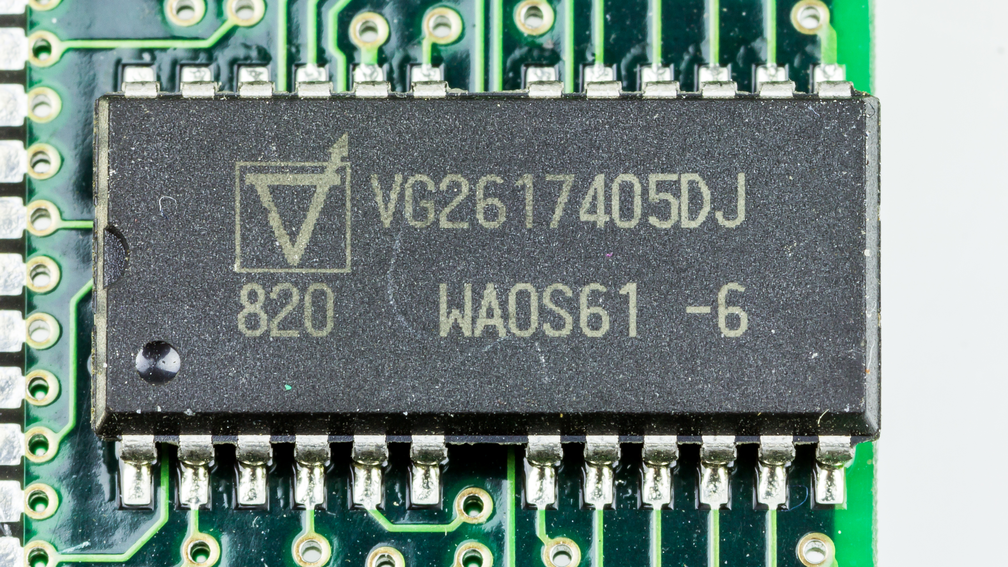 Vanguard VG2617405DJ EDO RAM - 4,194,304 x 4 - Bit CMOS Dynamic RAM